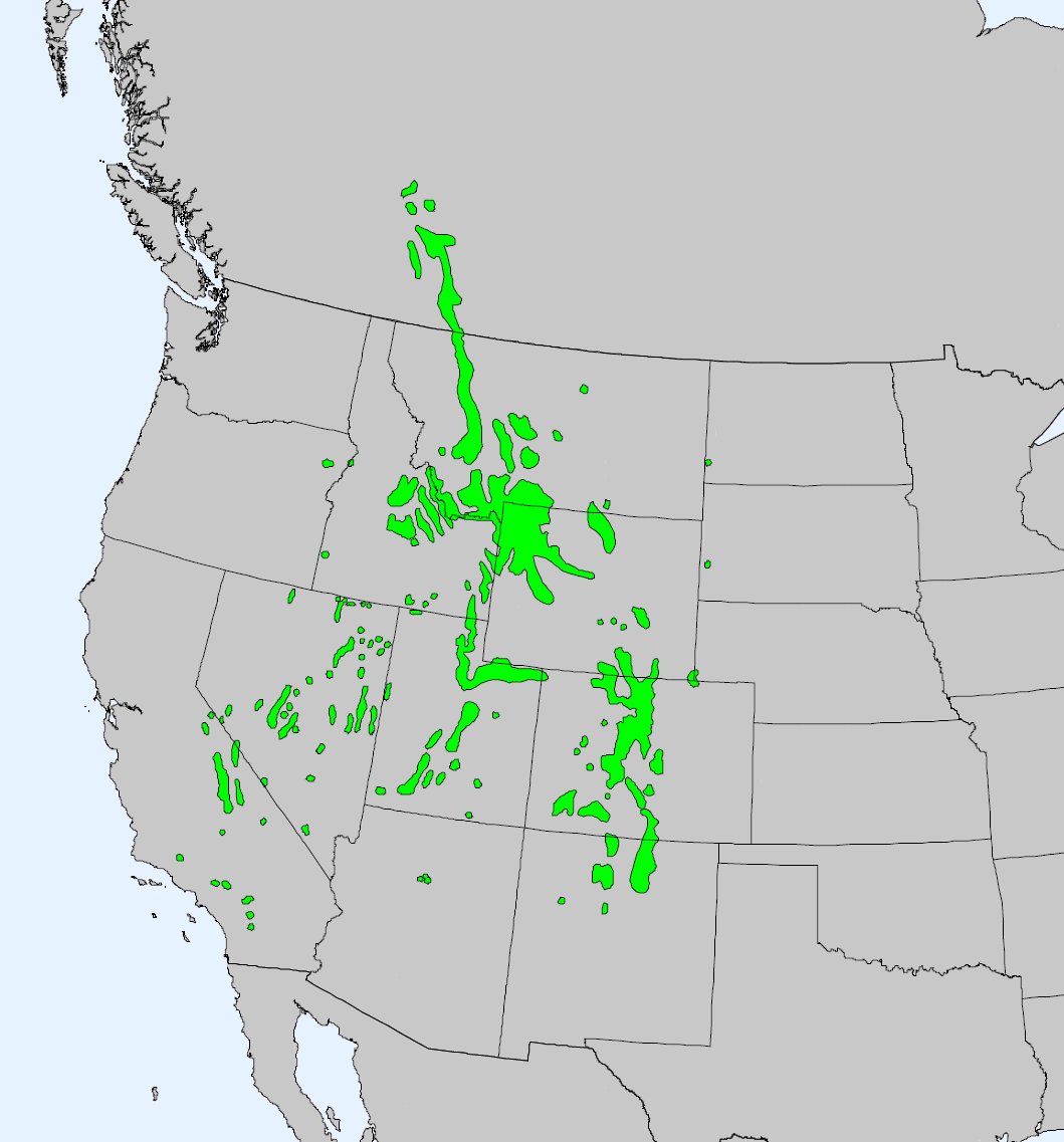 Range map of Limber Pine Pinus flexilis